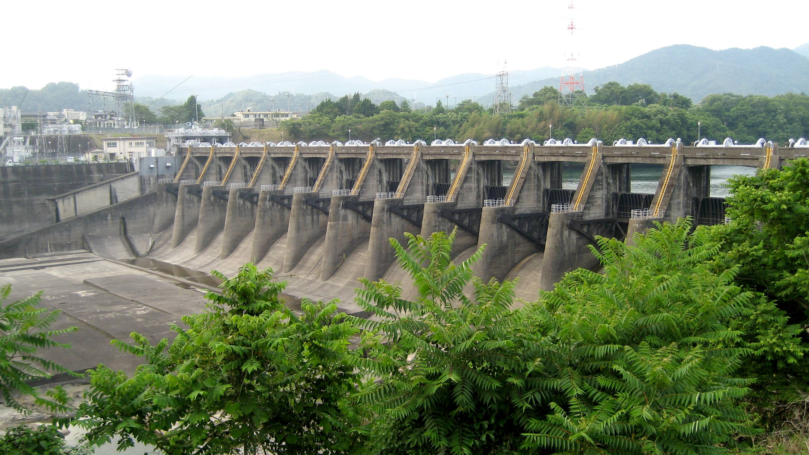 Kaneyama Dam (兼山ダム) is a dam in between Kani city and Yaotsu town, Gifu prefecture, Japan.